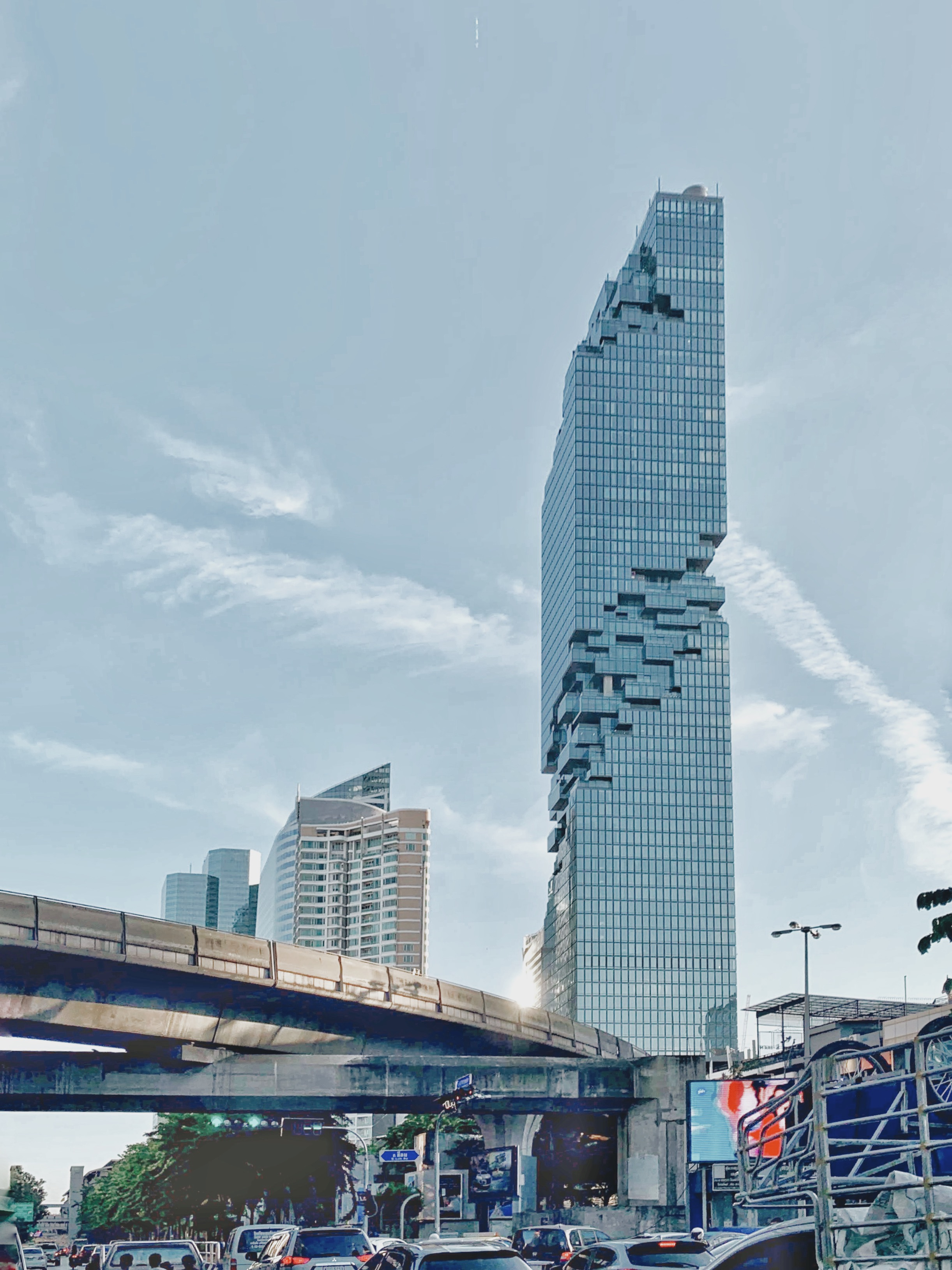 Mahanakhon in November 2019